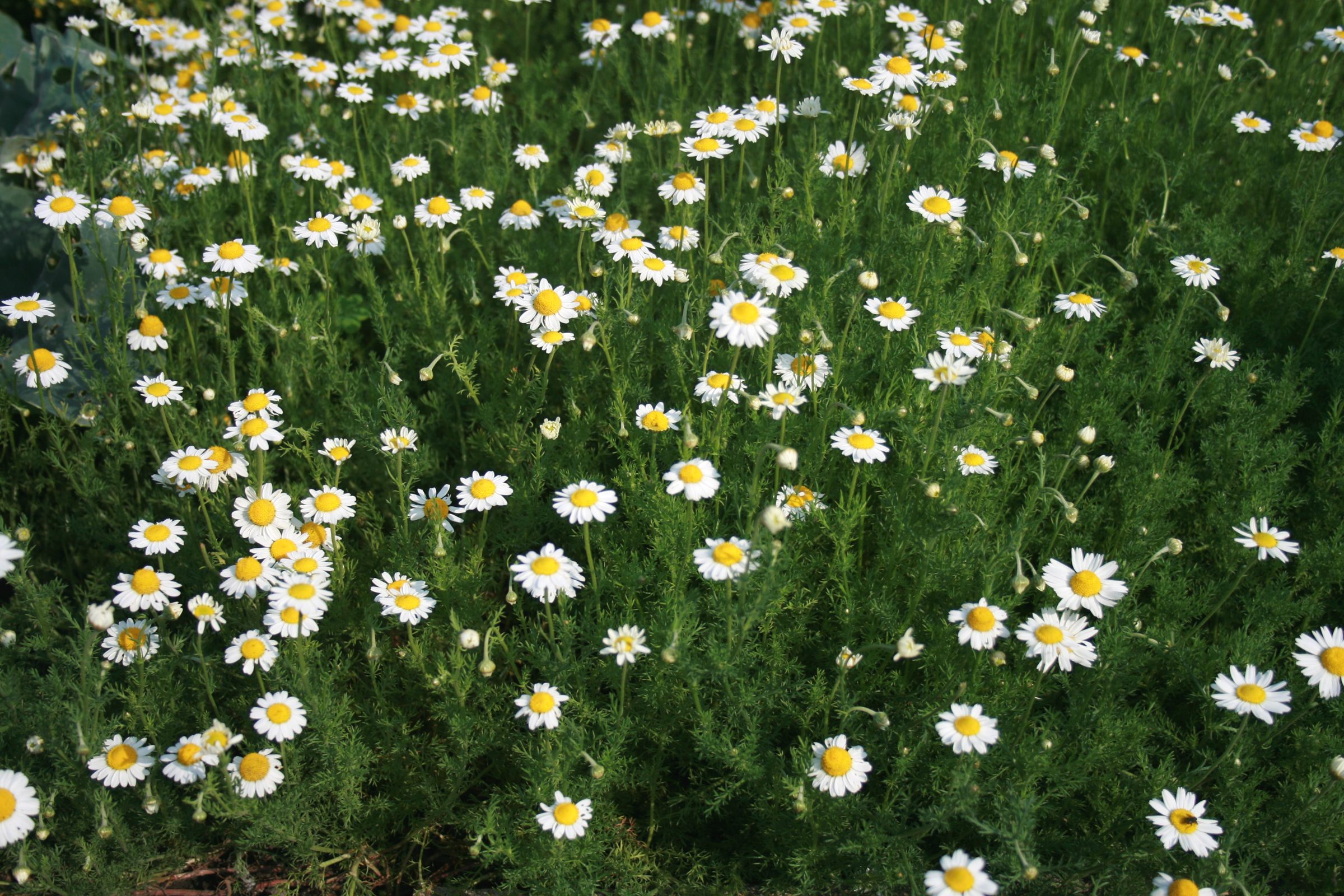 Anthemis nobilis, Chamaemelum nobile from Botanical Garden of Charles University in Prague, Czech Republic